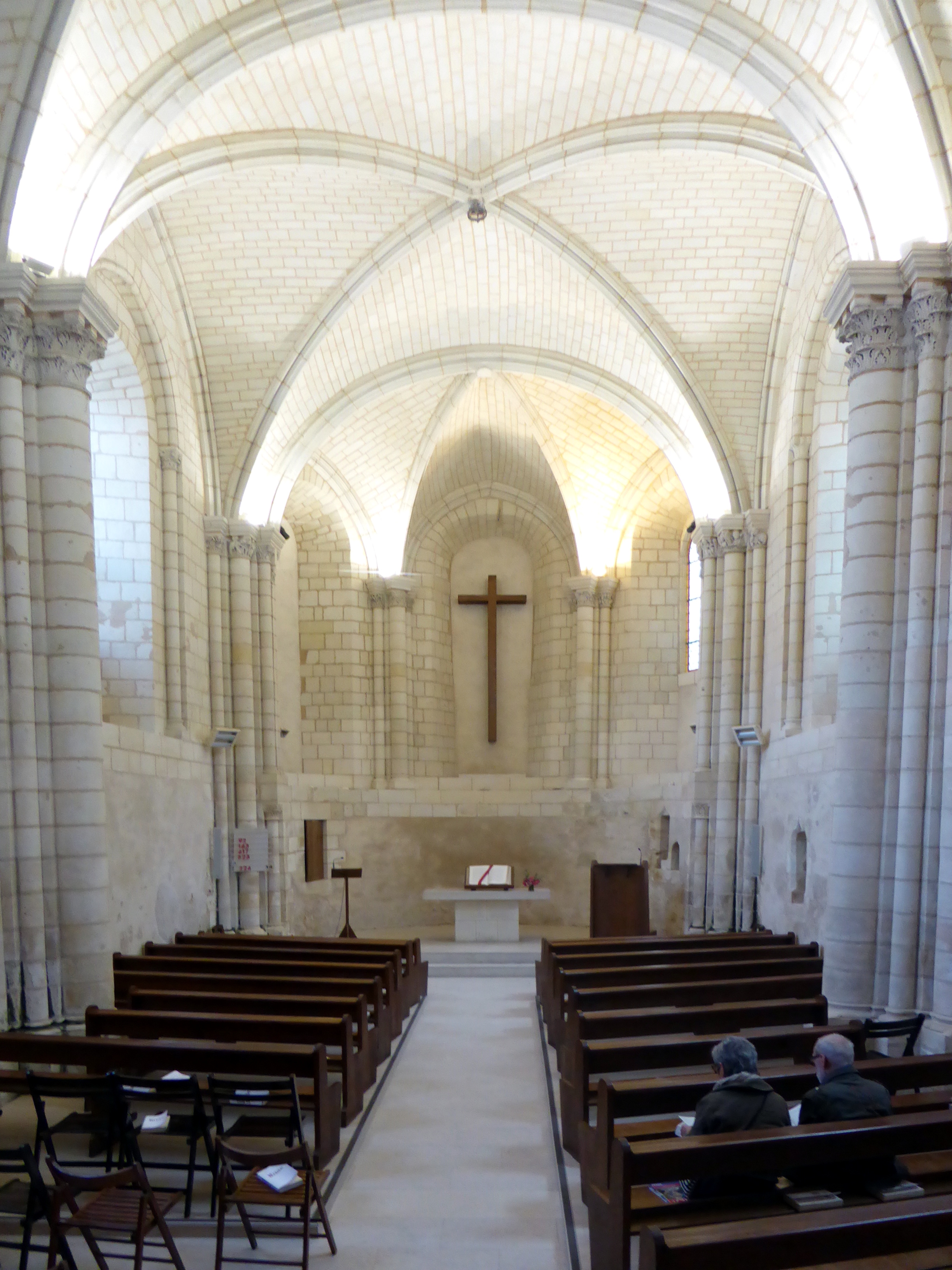 Interior of protestant church, 5 rue du Musée, in Angers, Maine-et-Loire, Pays de la Loire, France. Before, it was the chapel of the Saint-Eloi priory, or Saint-Gilles-du Verger priory, then the chapel of the small seminar (linked to the great seminar with the loggia visible at the right), and since 1849 the Protestant church.